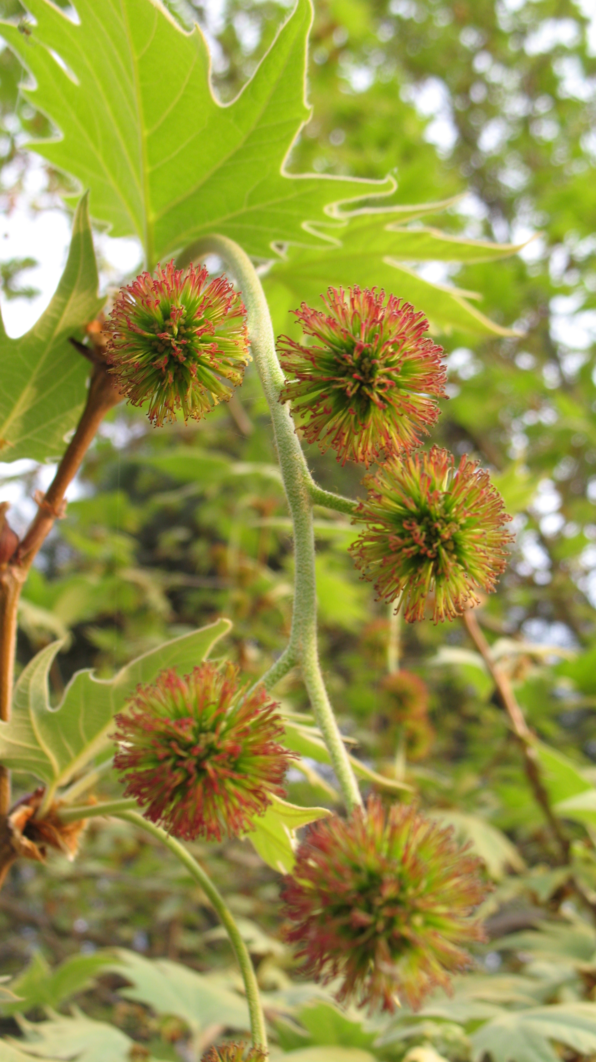 Flowers plane tree.